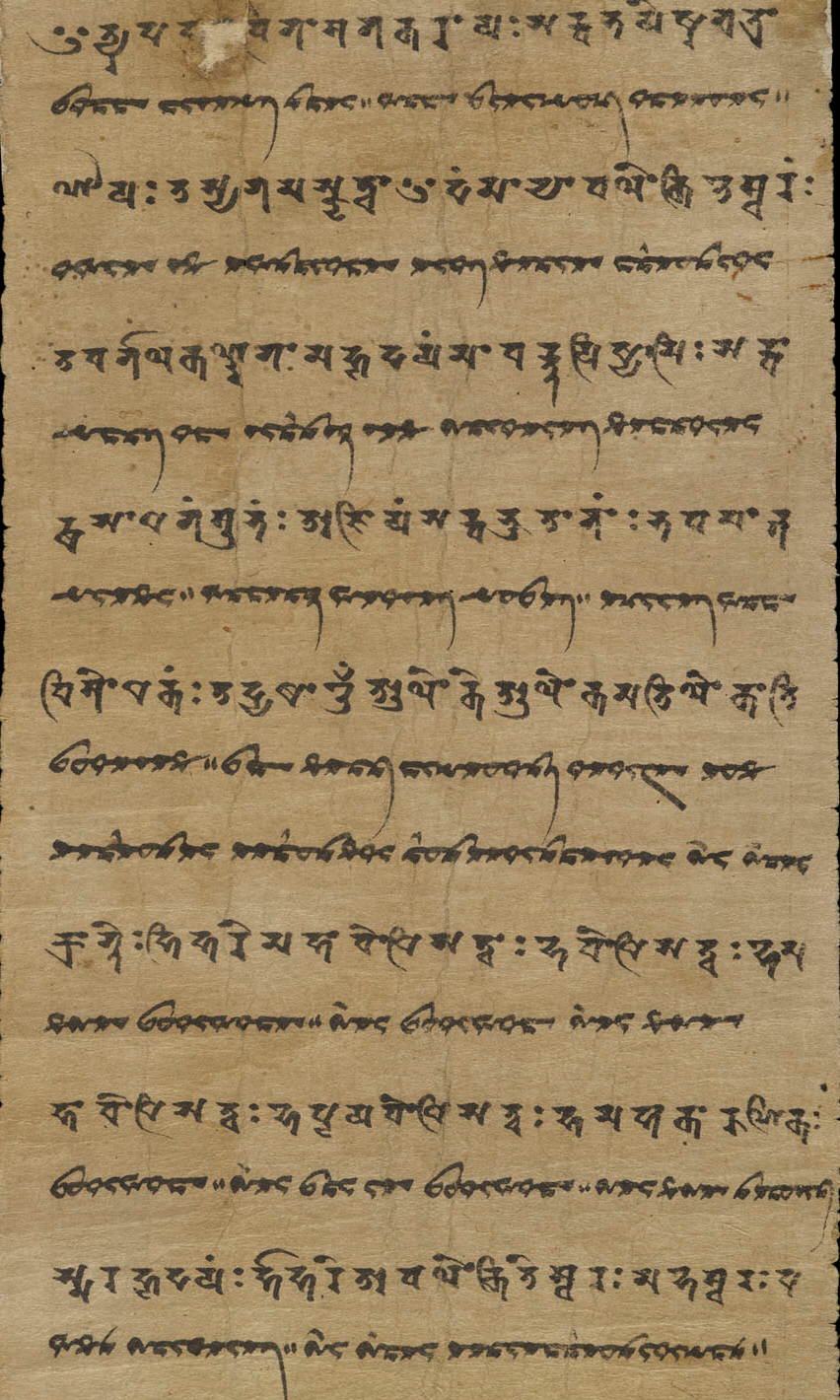 Part of a scroll of Nīlakaṇṭha Dhāraṇī in Sanskrit (Or.8212/175), written in alternate lines of late Gupta (Siddham) and Sogdian scripts. Ink on paper.